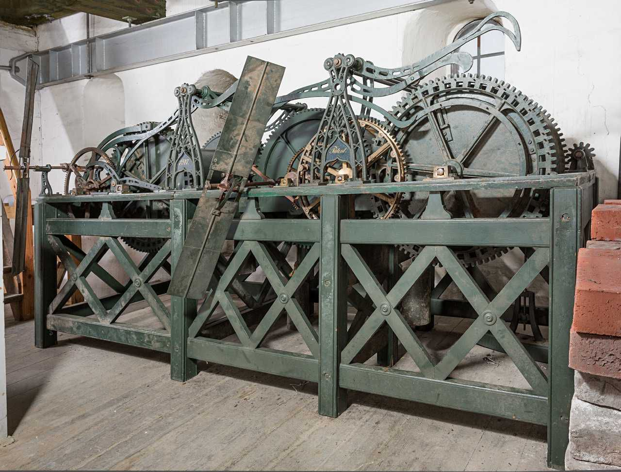 Tower clock in Vor Frue Kirke in Nyborg made by Henrik Kyhl in 1847.